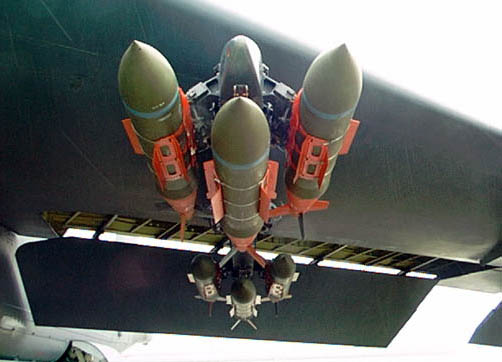 2000 lb GBU-31(V)3/B JDAMs loaded onto a Heavy Stores Adapter Beam (HSAB) under the wing of a B-52H at the Naval Air Warfare Center Weapons Division, Naval Air Station China Lake, California (USA), on 3 September 1993.